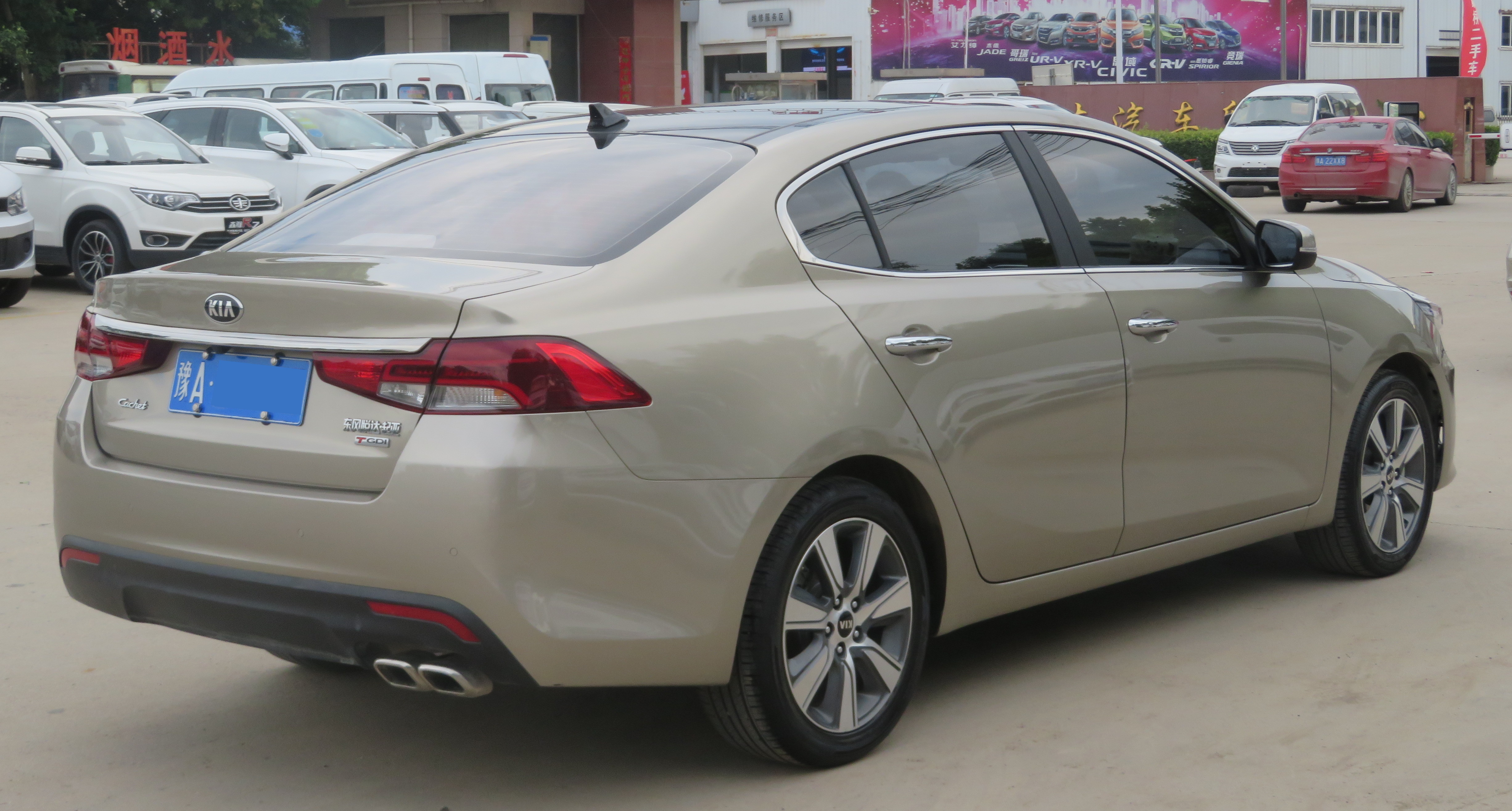 Photographed in Zhengzhou, Henan province, China